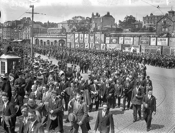 Catholic Emancipation Centenary procession from the Phoenix Park, passing down Parkgate Street and turning onto Heuston Bridge, Dublin. A great photo in so many ways, but fell in love with it because of the advertising posters in the background. A true clash of God and Mammon... Thanks to Seuss. we now have an exact date for this photo. Date: Sunday, 23 June 1929 NLI Ref.: INDH1019